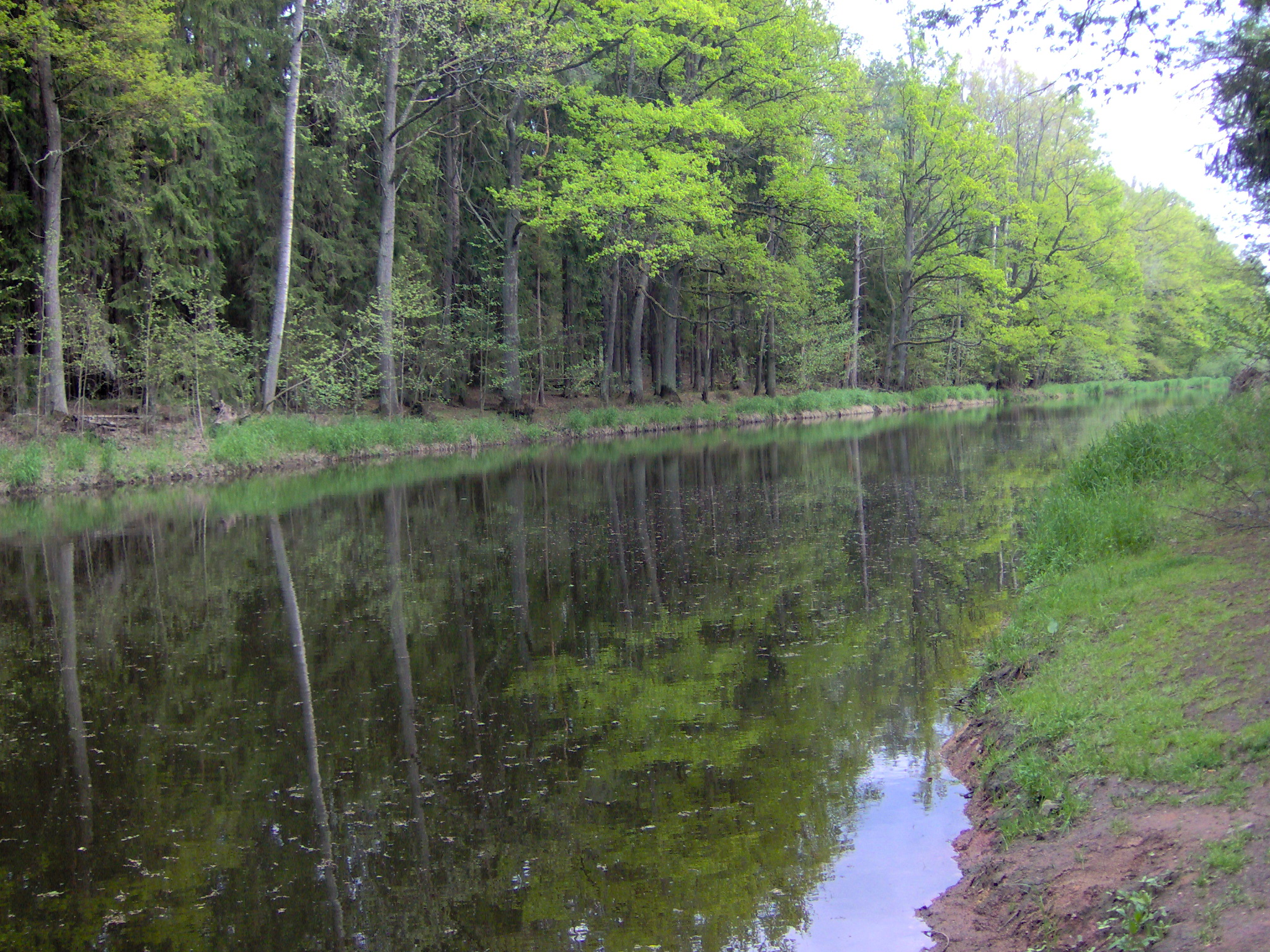 Nová řeka, part of Lužnice, near memorial of Emmy Destinn, South Bohemian Region, Czech republic